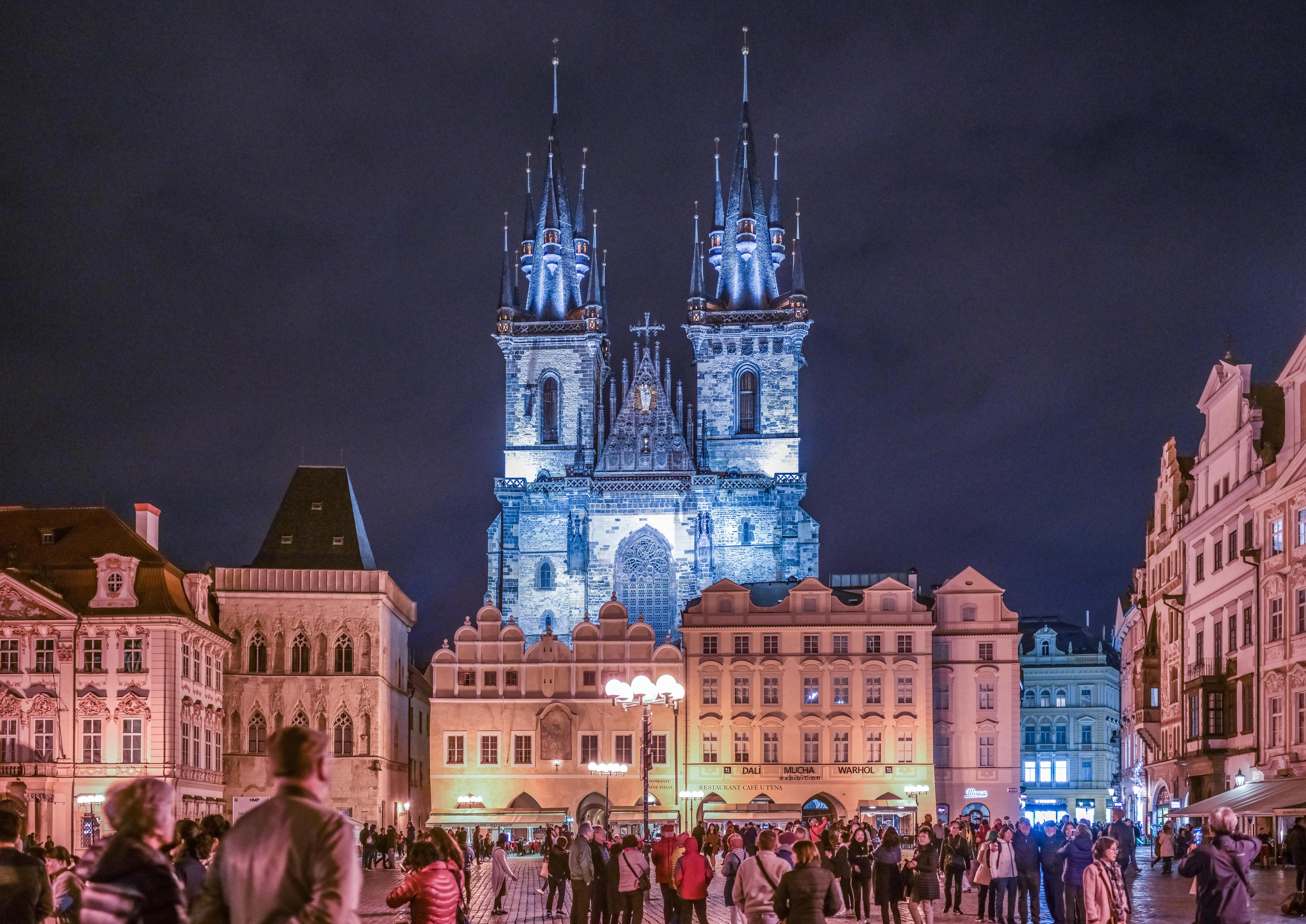 Prague, Czech Republic, October 2018